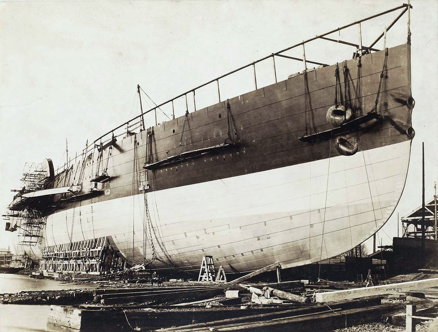 The Great Eastern ("Leviathan")